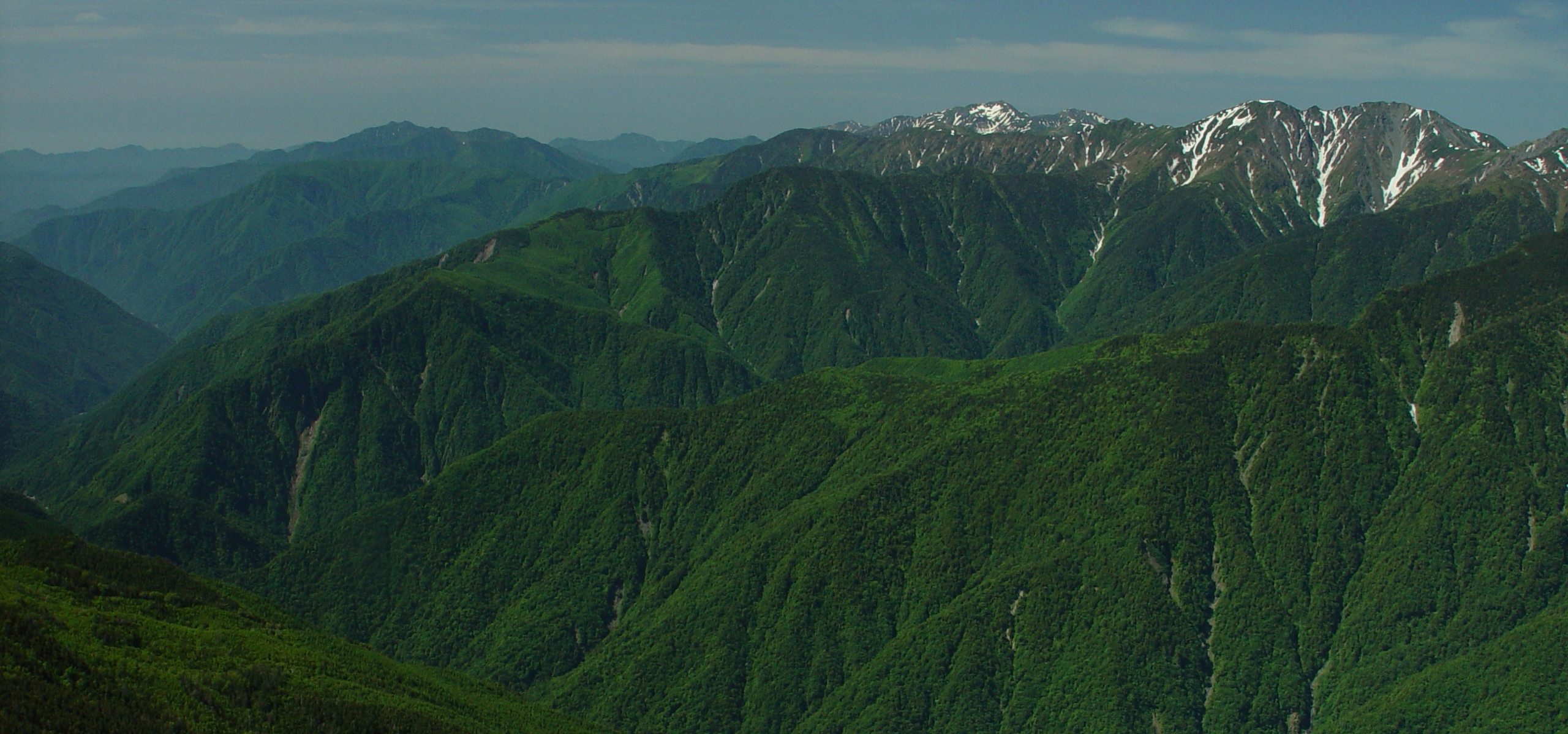 Mount Notori and Shirane South Ridge (Shirane nanrei) in the Akaishi Mountains, Japan, seen from Mount Kannon (Mount Hōō)